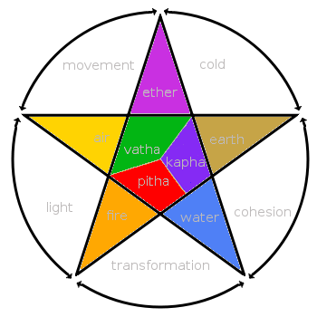 Schematic showing the three humors in ayurveda (pitta - vata - kapha ) and the "5 great elements" that they are composed from. Schematic was made based on: (5 great elements & doshas) (5 elements & doshas 2) (pentagram representation) (light, cold, oily text) The schematic was made using Regarding the colors, these were basically taken from , since chakra's are initially based on the tree dosha's . The colors were figured out by means of color mixing/intermediate colors theory. The main dosha colors were generally followed (green for vata, red for pitha, (dark) blue for kapha), , regular colors for the elements were also taken by looking at the various schematics (see links above; ie , ...) and slightly modified based on the color mixing theory.